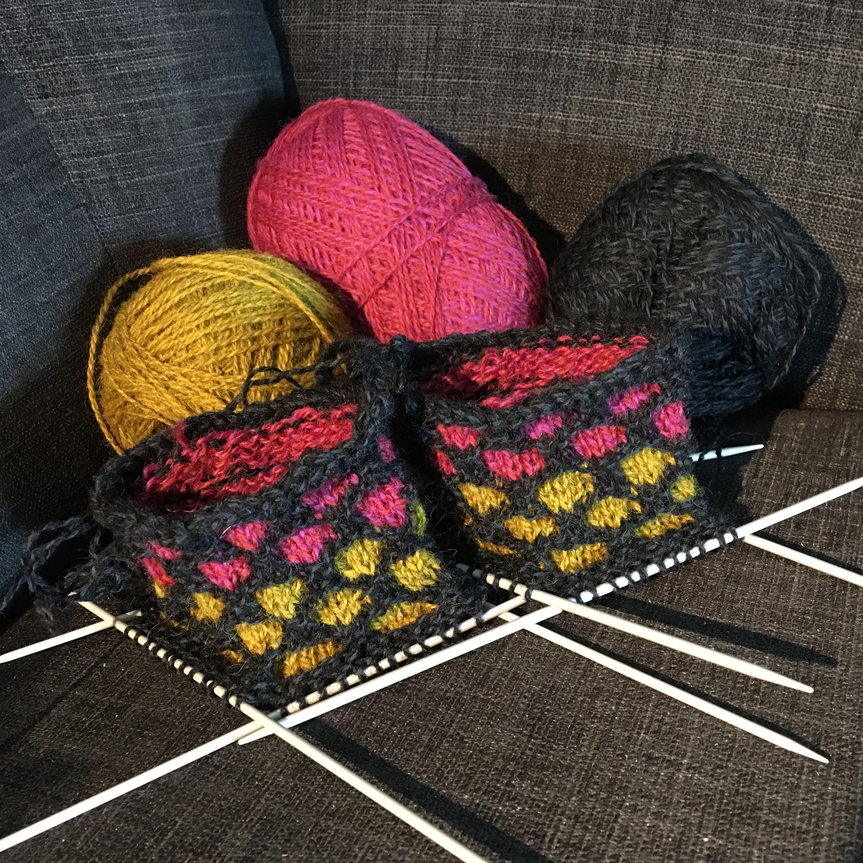 Photo of a knit pattern called “hålkrus” in Swedish.